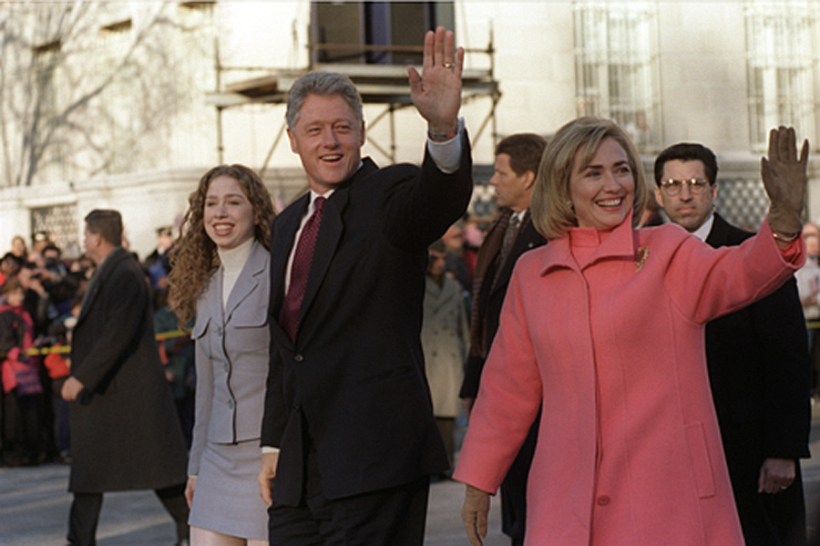 US President Bill Clinton (center with hand up), first lady Hillary Rodham Clinton to right of photo; their daughter Chelsea Clinton to left. On procession in public. The President, First Lady, and Chelsea on parade down Pennsylvannia Avenue on Inauguration day, January 20, 1997.